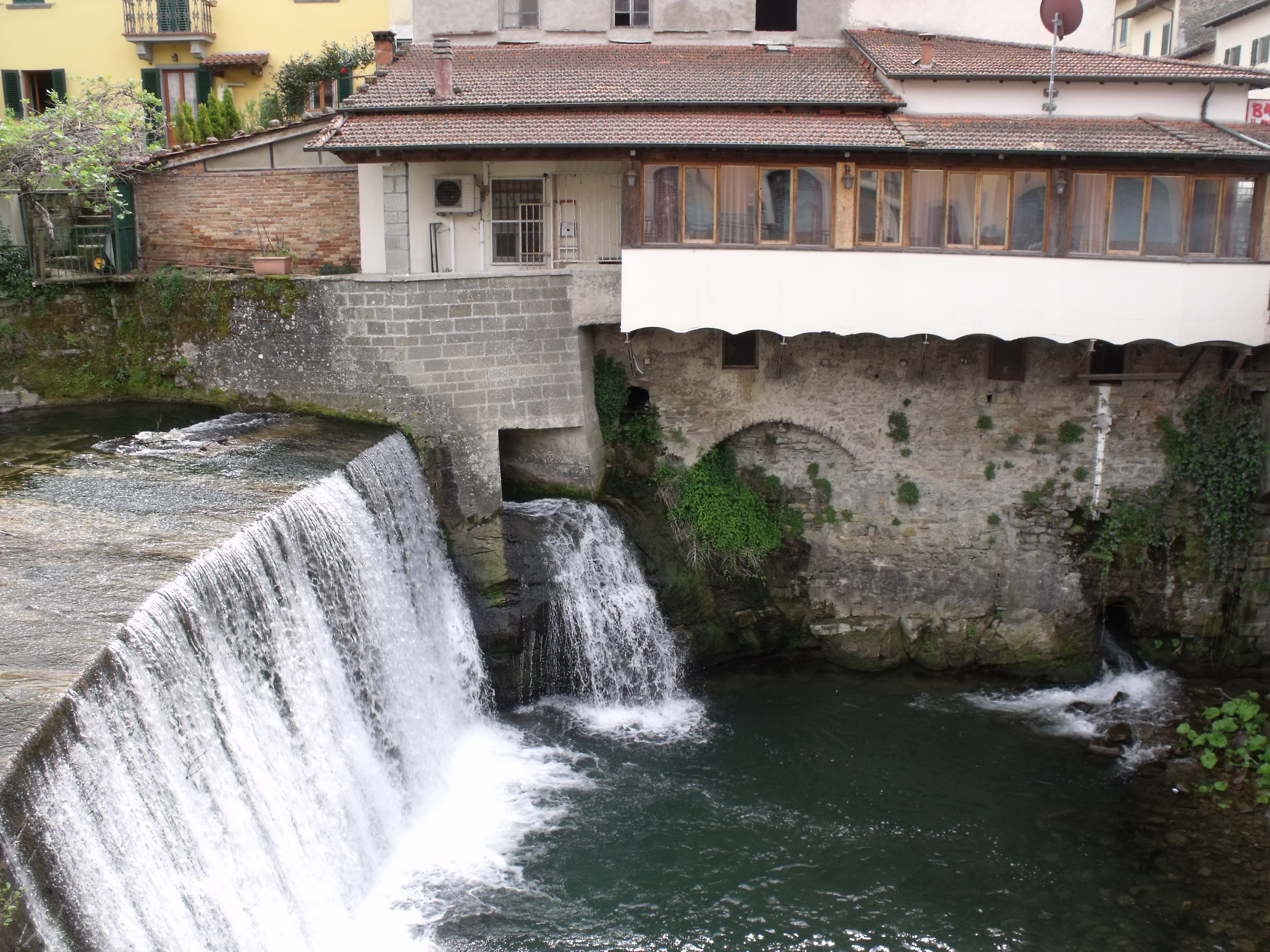 The Staggia River in Stia, Casentino, Province of Arezzo, Tuscany, Italy